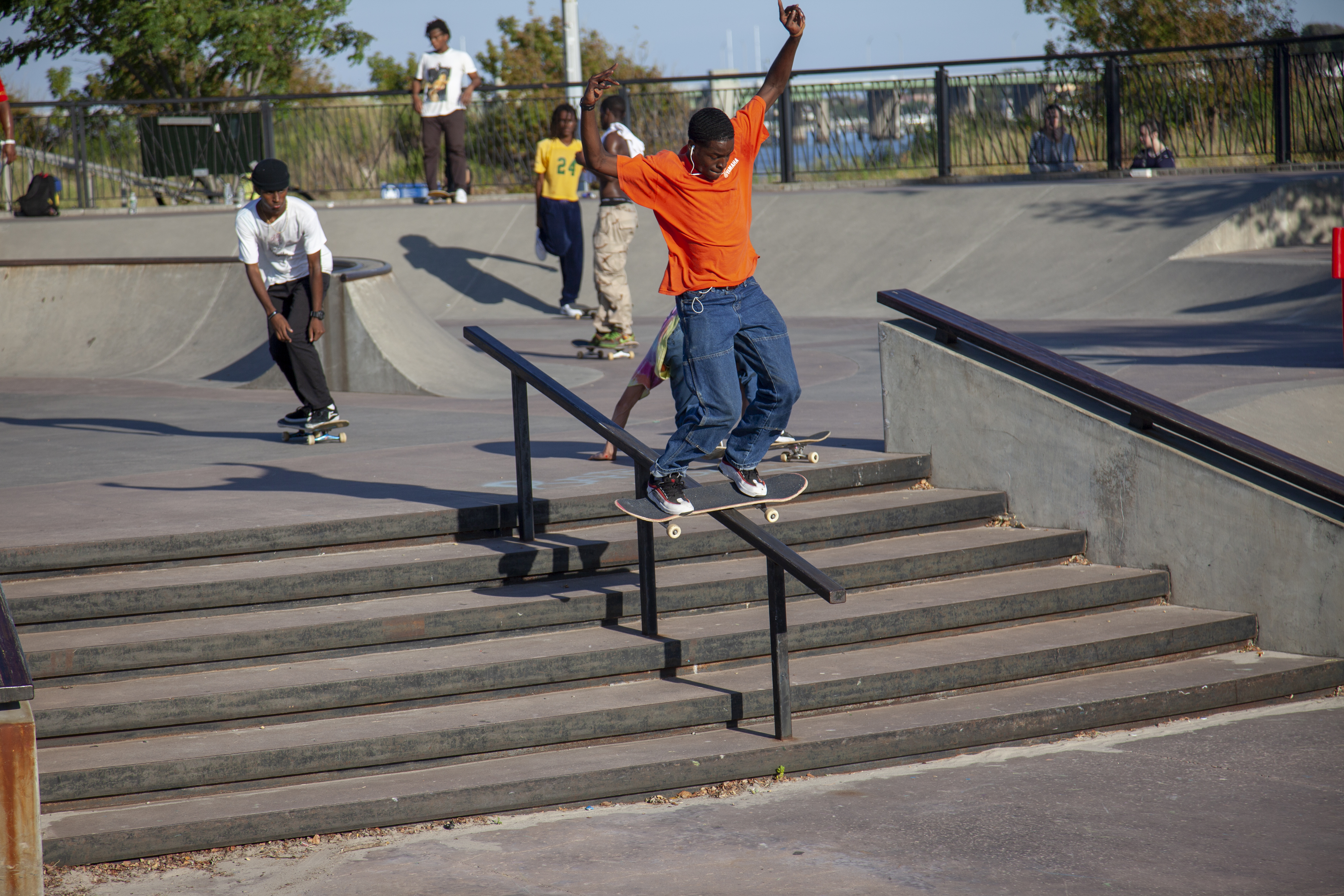 Boardslide in an orange shirt at Far Rockaway Skatepark - 2019 - Battle of the Beach 2 contest